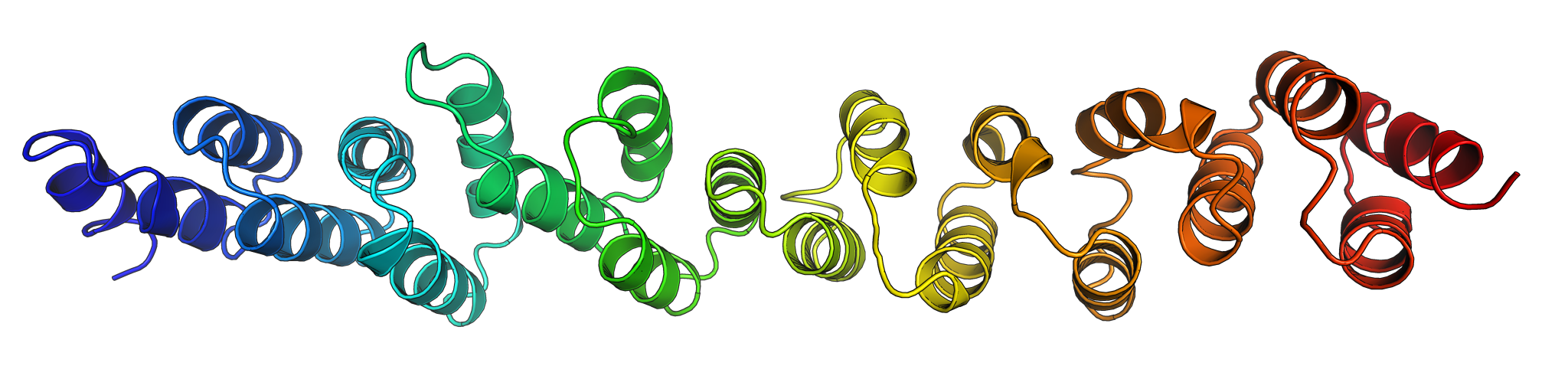 The alpha solenoid structure of the clathrin heavy chain leg segment, shown with the N-terminus in blue at left and the C-terminus in red at right. Rendered using PyMol from PDB ID 1B89. Ybe JA, Brodsky FM, Hofmann K, Lin K, Liu SH, Chen L, Earnest TN, Fletterick RJ, Hwang PK. Clathrin self-assembly is mediated by a tandemly repeated superhelix. Nature. 1999 May 27;399(6734):371-5.